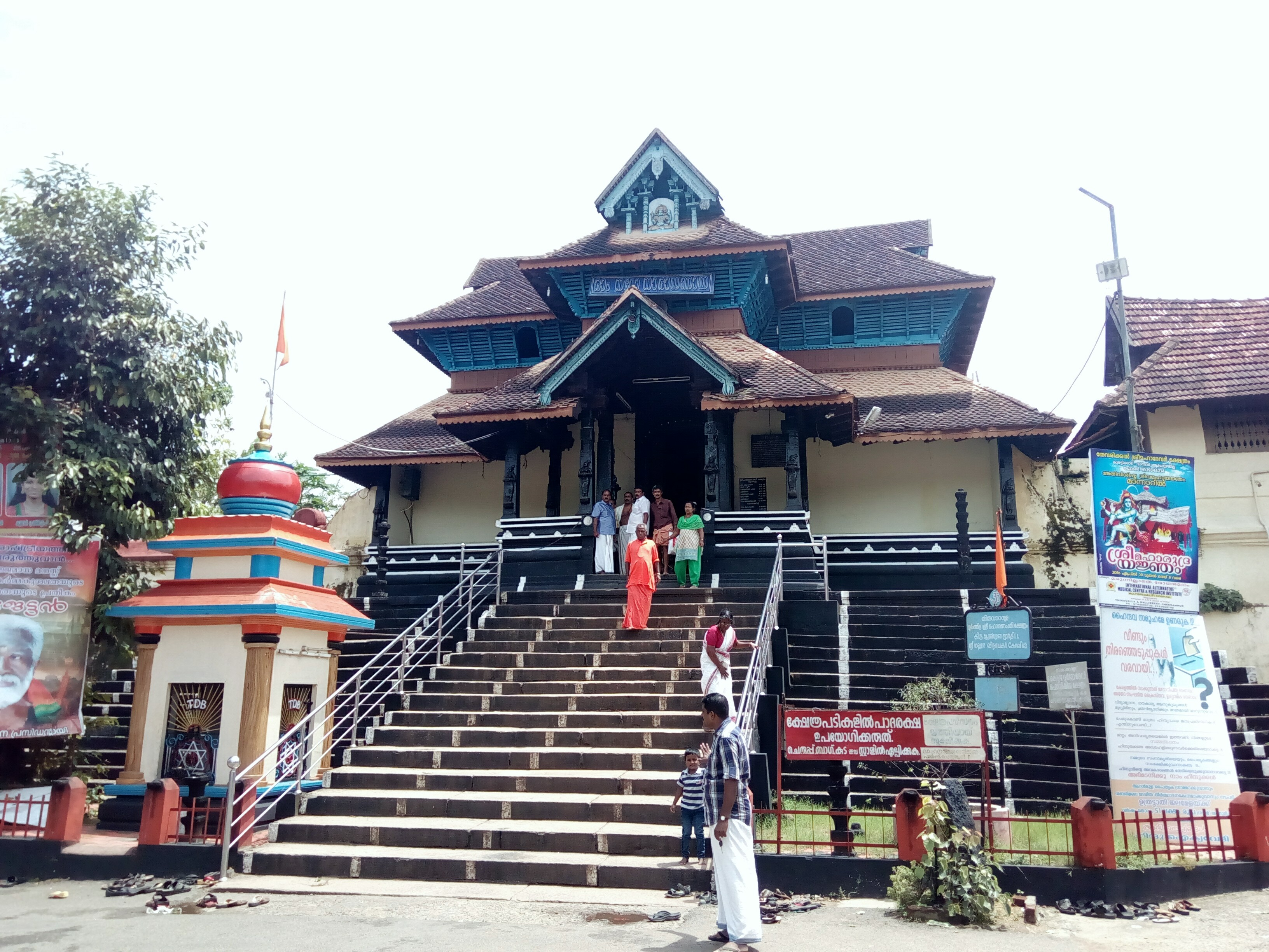 Aranmula Parthasarathy Temple